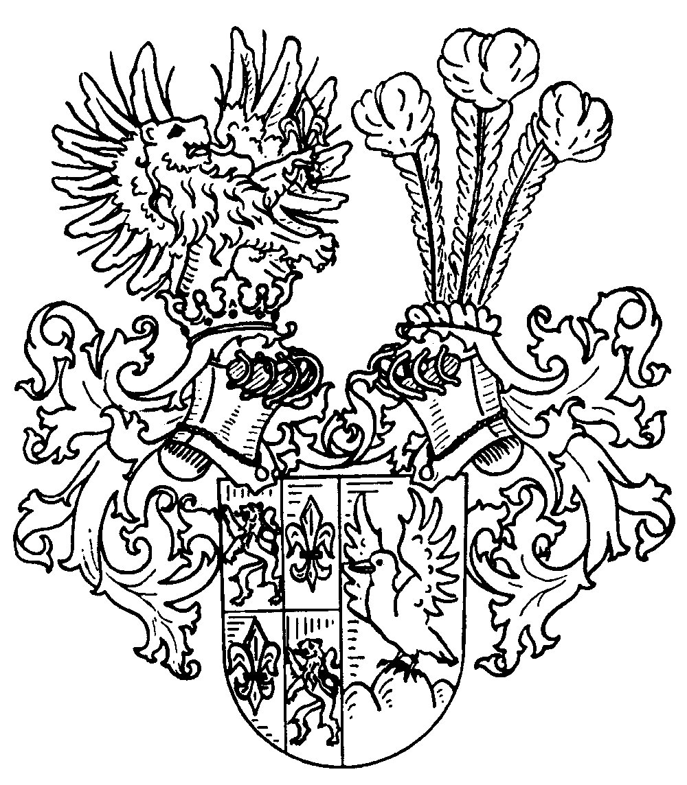 Coat of arms of the german family von Eisenhart-Rothe